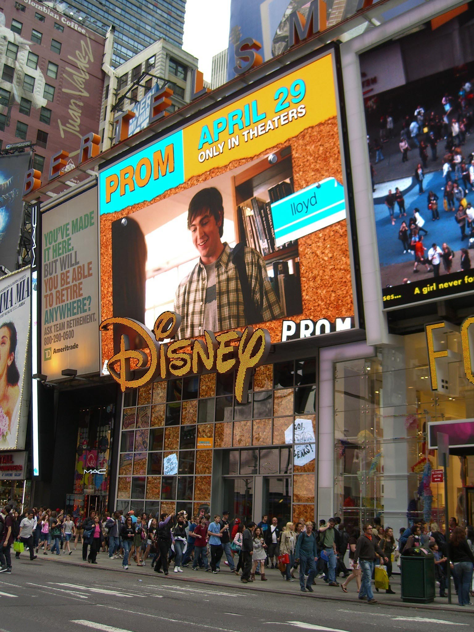 The Disney Store in Times Square, Manhattan, on April 29, 2011.Photographed by Luigi Novi. This photo is not in the public domain. It may, however, be used, modified and published for any purpose, free of charge, only if the photographer is properly credited, either by linking the photograph to this page, or with an easily visible credit to the photographer placed near the photo in each instance in which it is used. (See licensing information below.) Publication of this photo without this proper attribution constitutes copyright infringement. If you have any questions, you can contact me on my Wikipedia Talk Page.